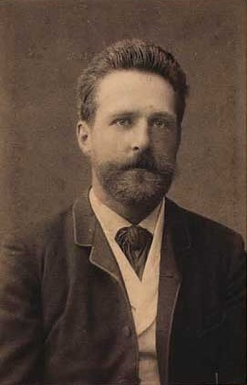 Ludvig Christian Brinck-Seidelin Kabell (1853-1902), Danish painter